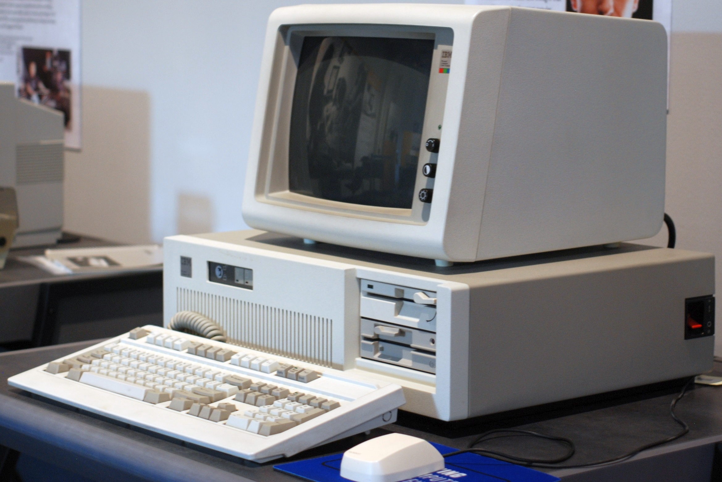 IBM Personal Computer/Advanced Technology. Currently on display at the Living Computer Museum in Seattle, Washington.